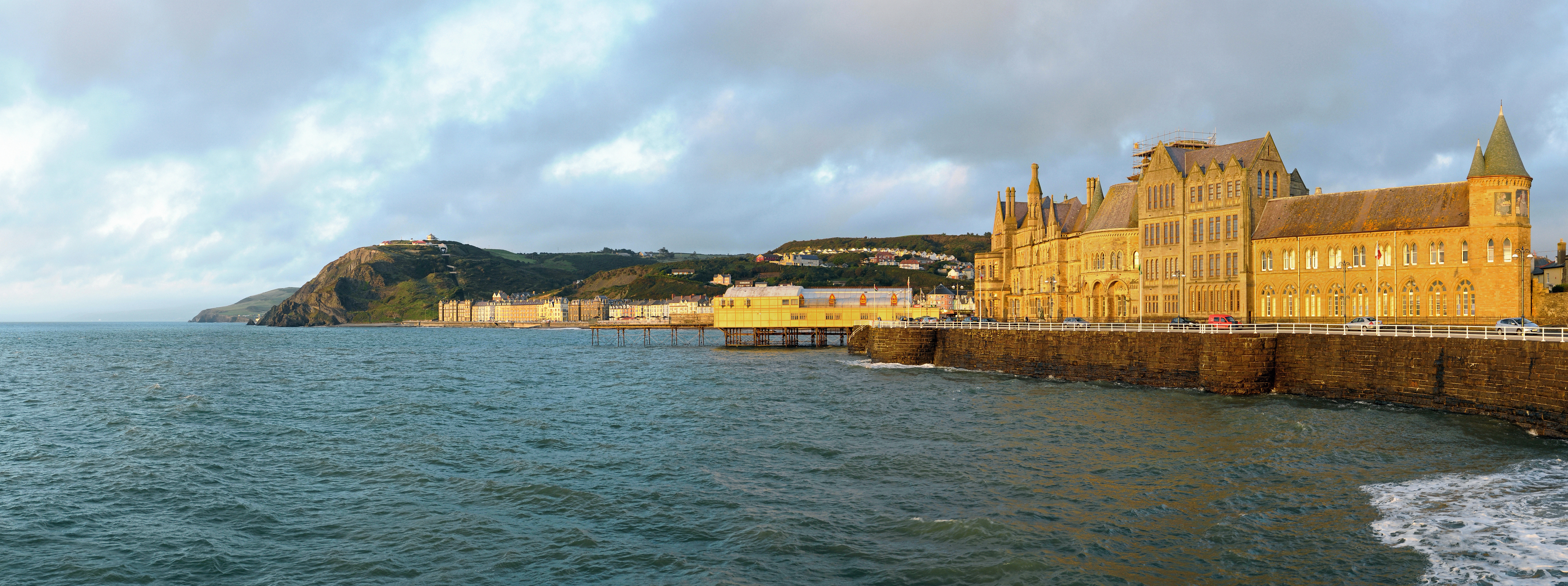 Old College Aberystwyth and Royal Pier at dawn. Aberystwyth, Wales, UK